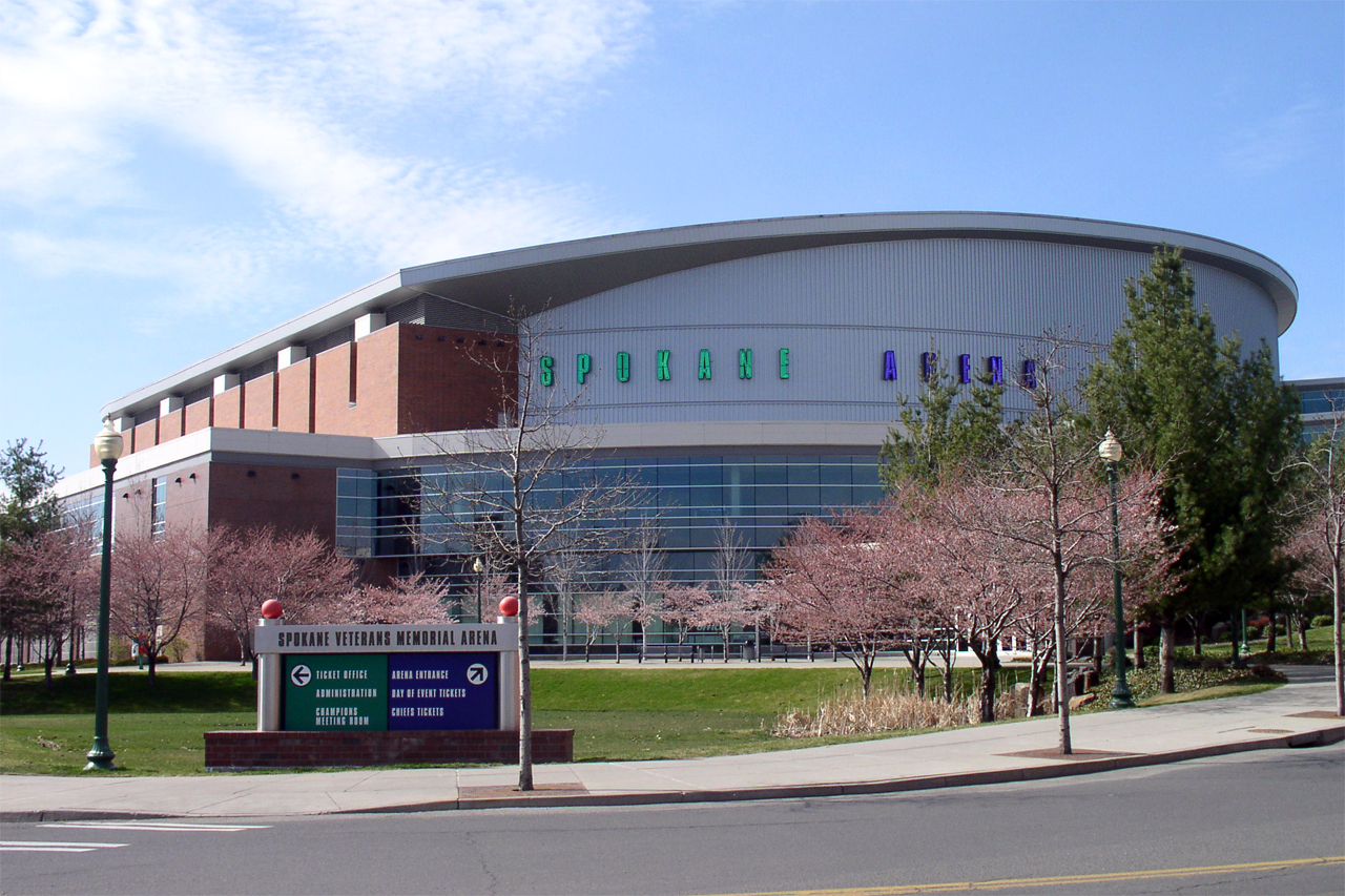 Photo of the Spokane Veterans Memorial Arena in Spokane, Washington.